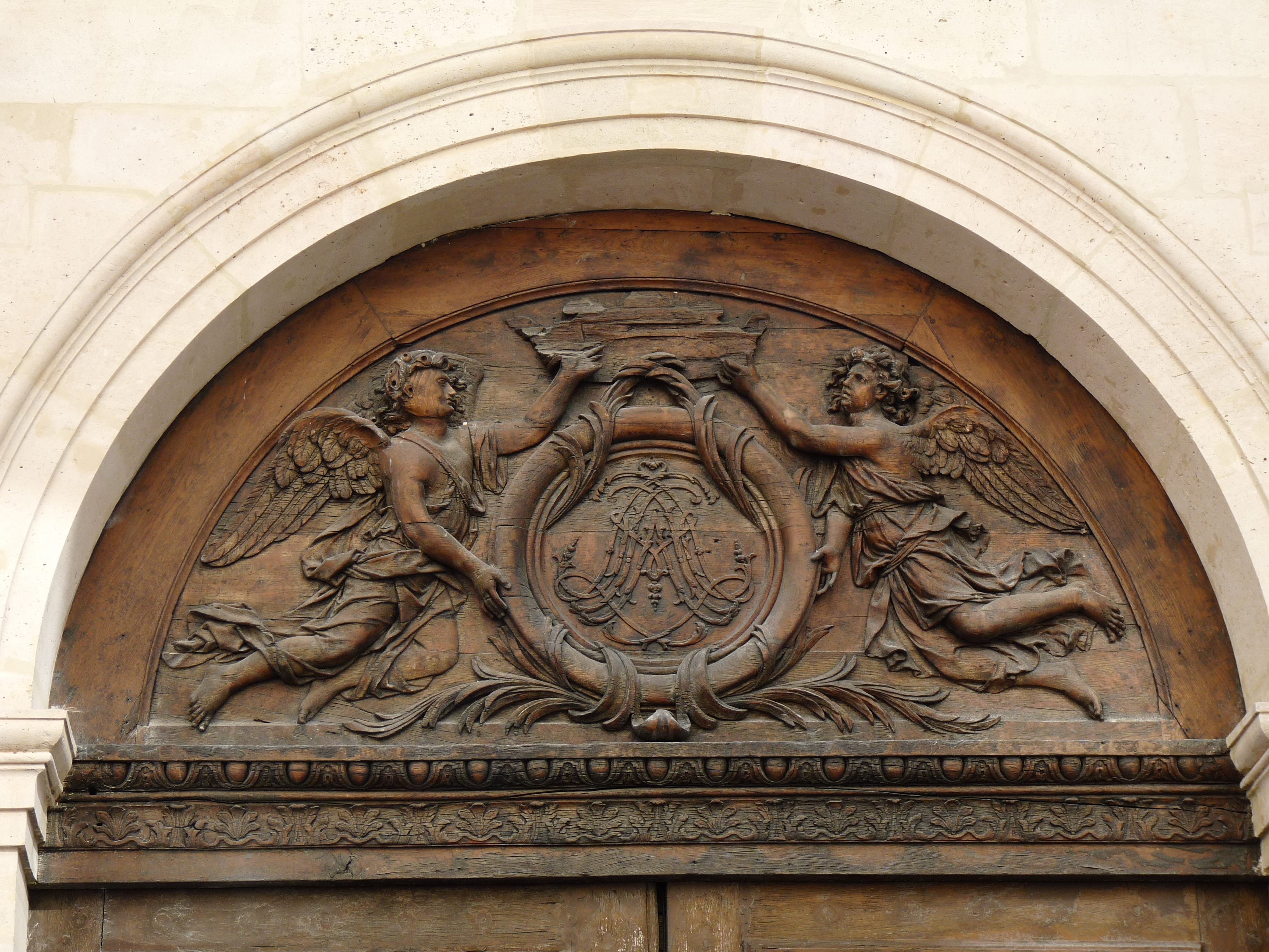 The woodwork above the entrance gate rue des Archives of Hôtel Tallard in the 3rd district of Paris.